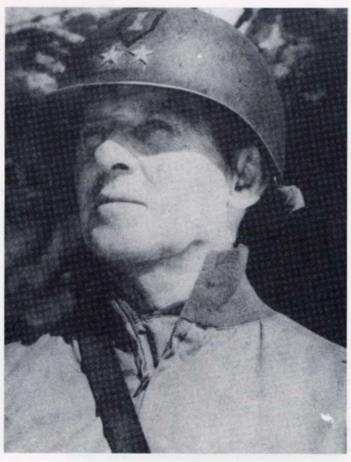 Clarence R. Huebner from [1]